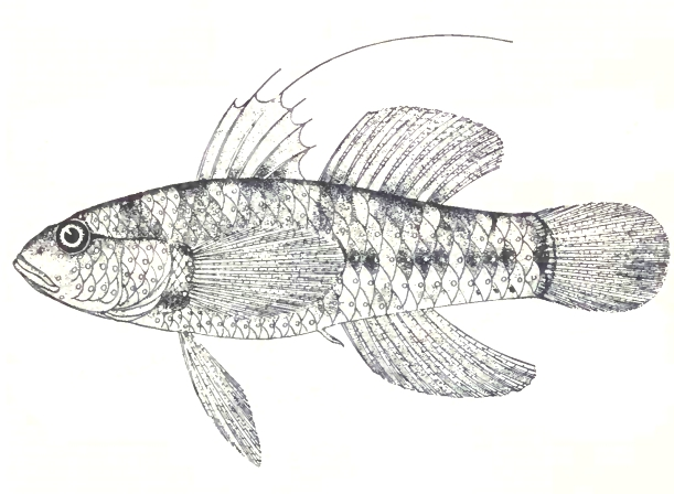 Starry goby, Asterropteryx semipunctata Rüppell, 1830